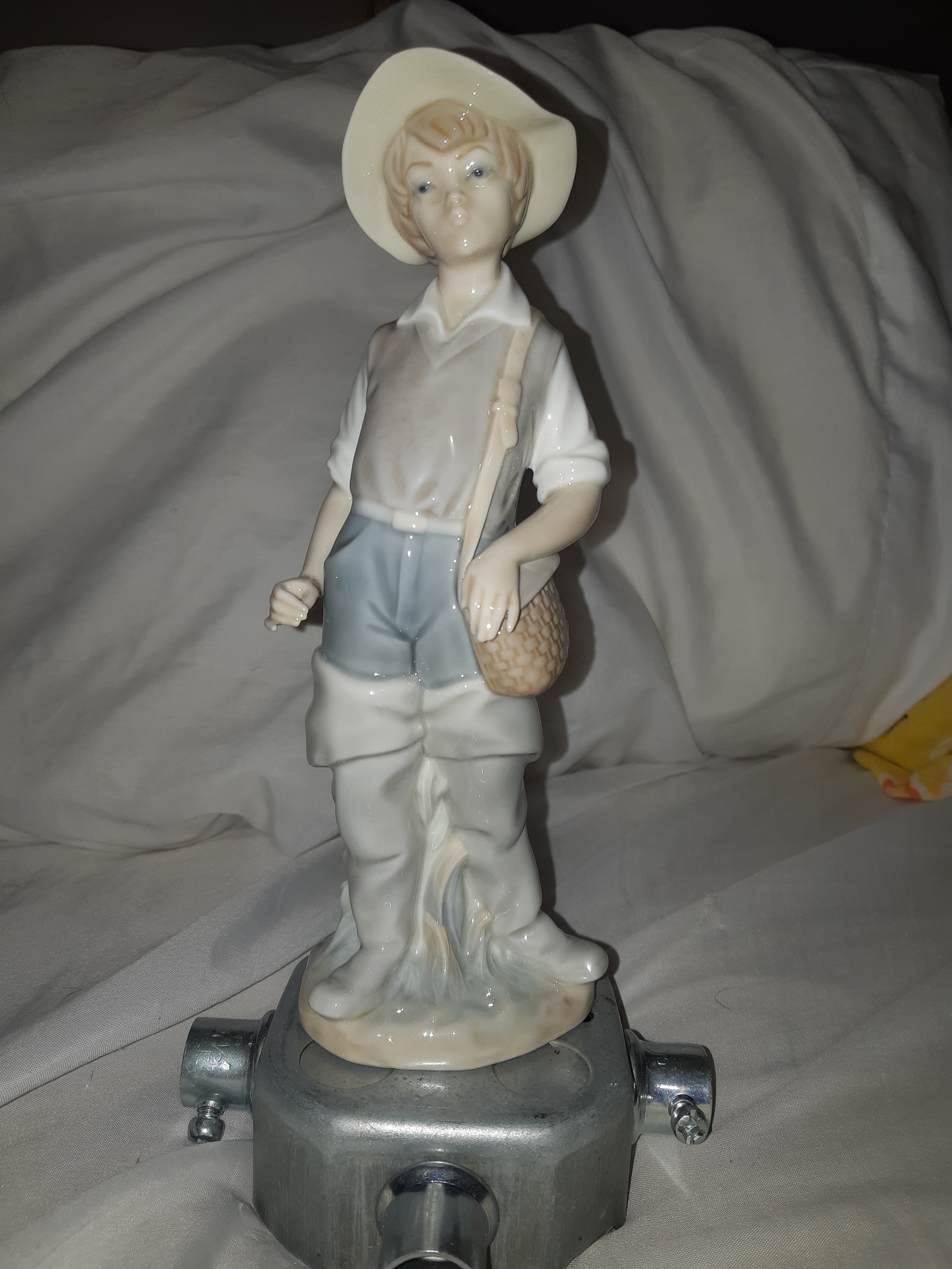 A Photograph of a Lladro Fisher Boy porcelain figurine, standing on a metal base.